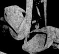 Sandals worn by an unidentified girl located in Arizona in 1960.